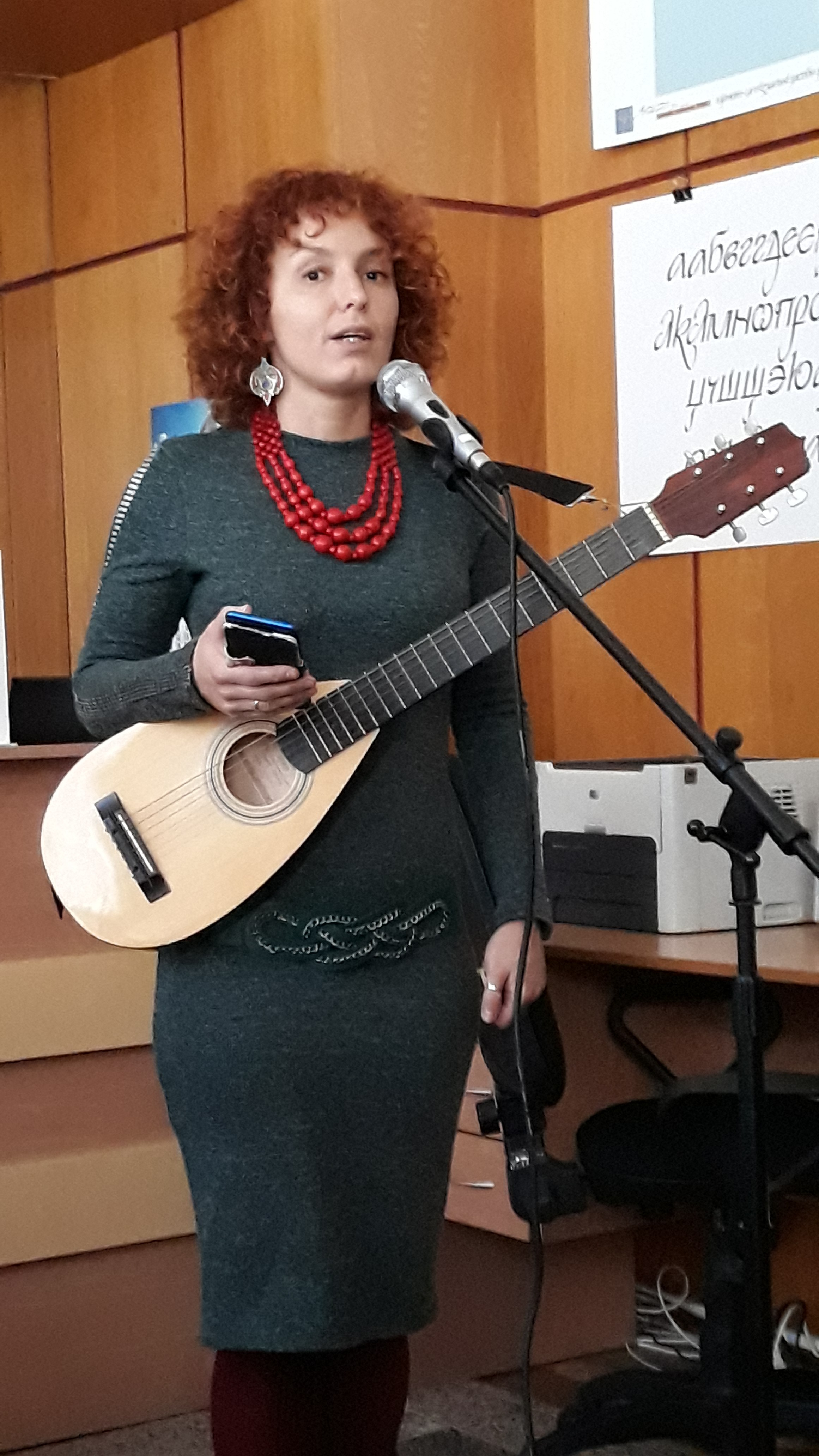 Valentyna Zakhabura, proect Virshobrekhenky (author Oksana Yablonska-Sevama), 17.03.2019, Public Library of the name Lesia Ukrainka, Kyiv, Ukraine